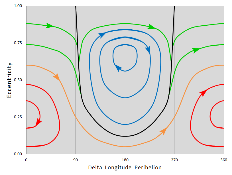 The secular evolution of extreme transneptunian objects with semi-major axes of 250 AU under the influence of hypothetical Planet Nine. Green curves for meta-stable objects, red curves for aligned objects, blue curves for anti-aligned objects, orange curve for circulating objects. Arrows shows direction of evolution with time. Above black curve orbits intercept that of Planet Nine.